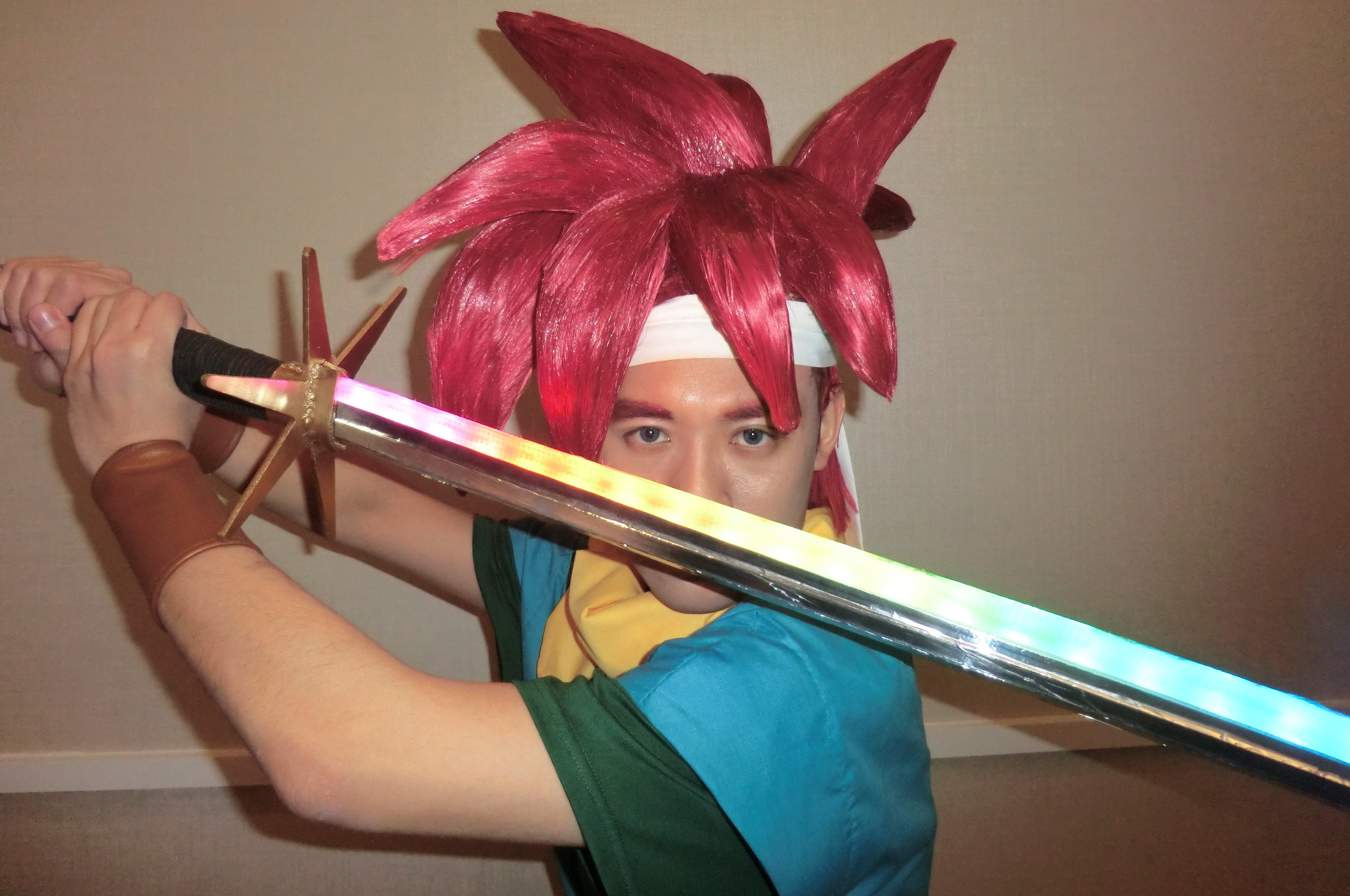 Chrono cosplay at Katsucon 19.